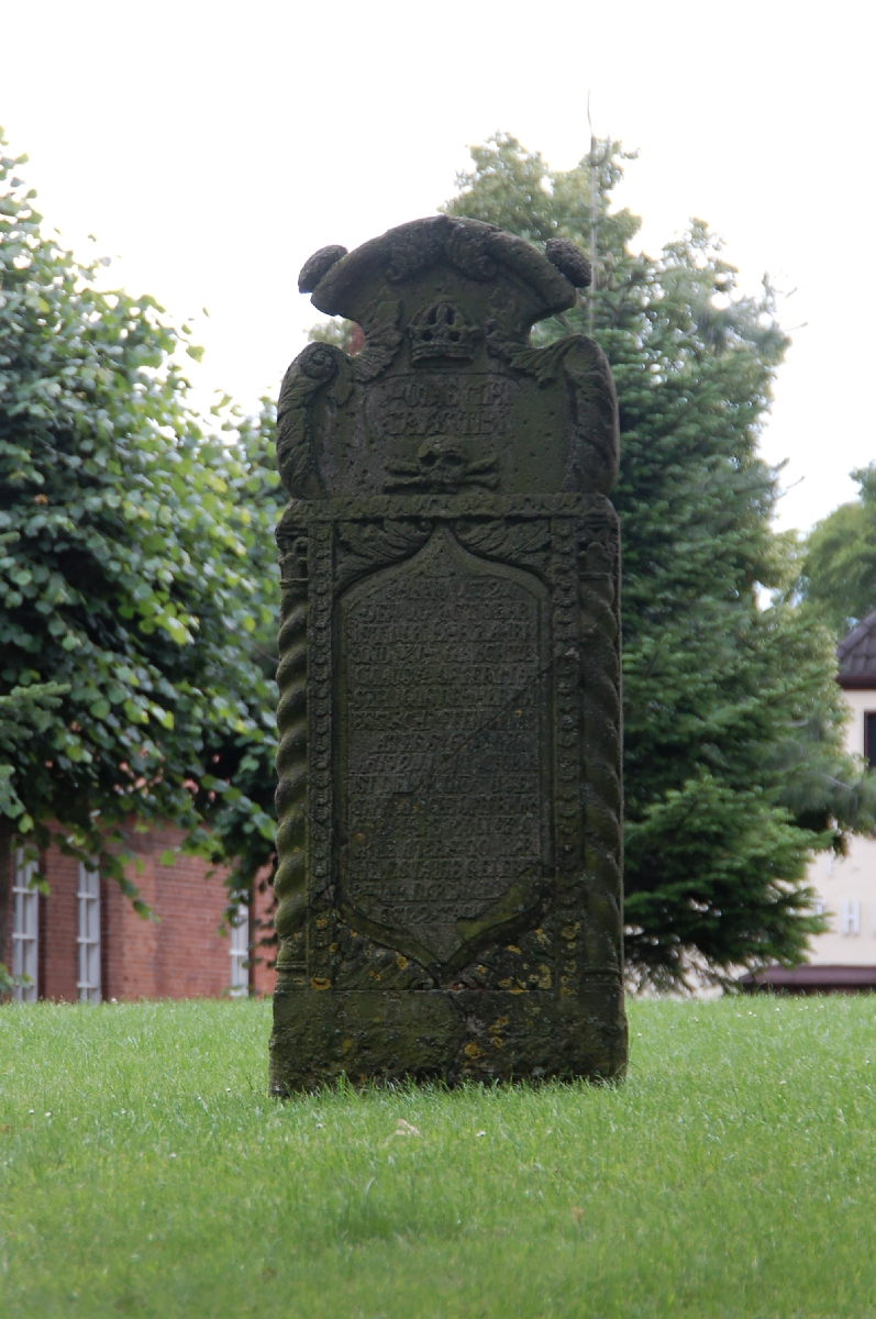 Pictures